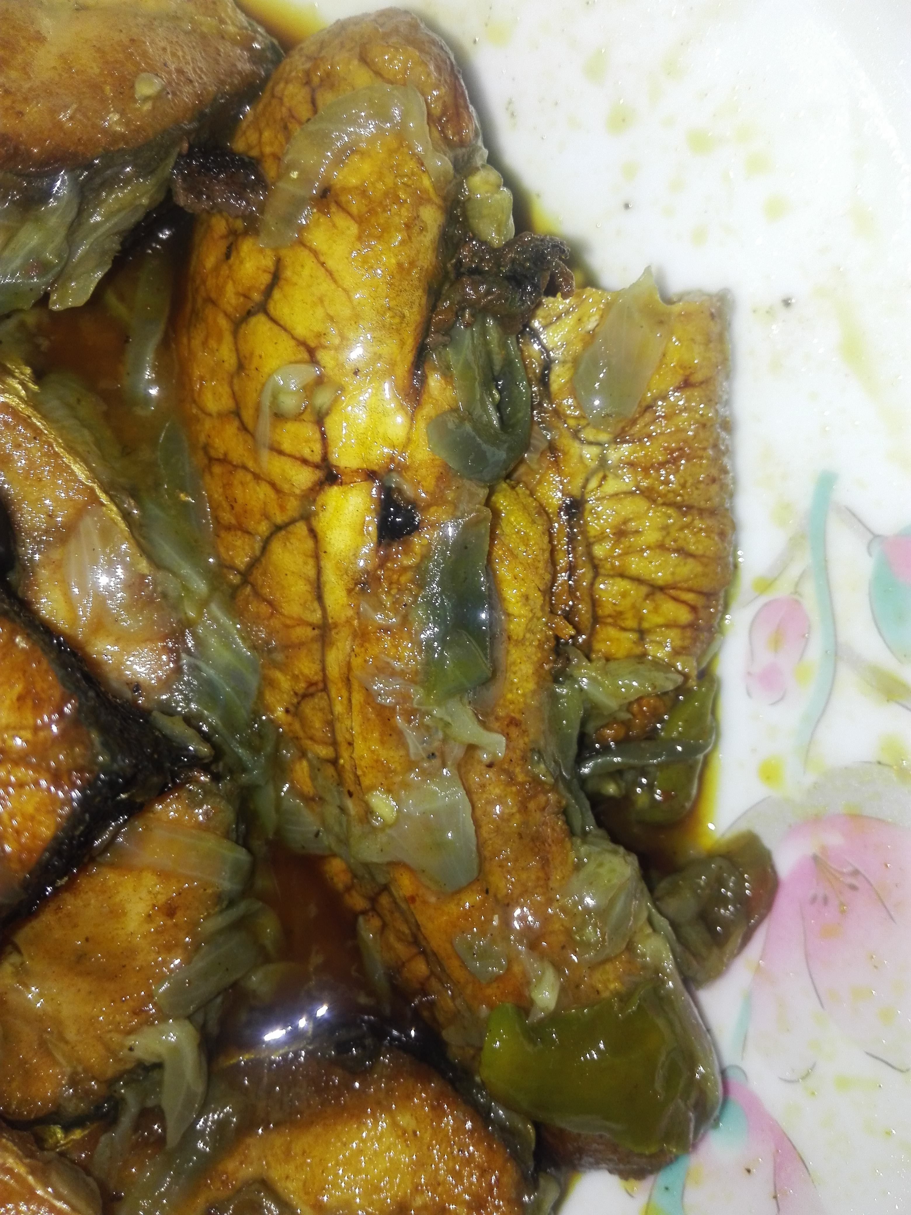 Bangladeshi style hilsha egg curry